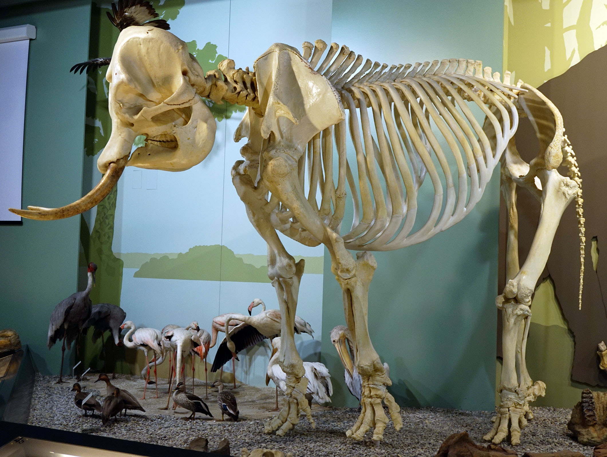 A skeleton in Augsburt Naturmuseum.This photograph was taken with a Sony ILCE-5000